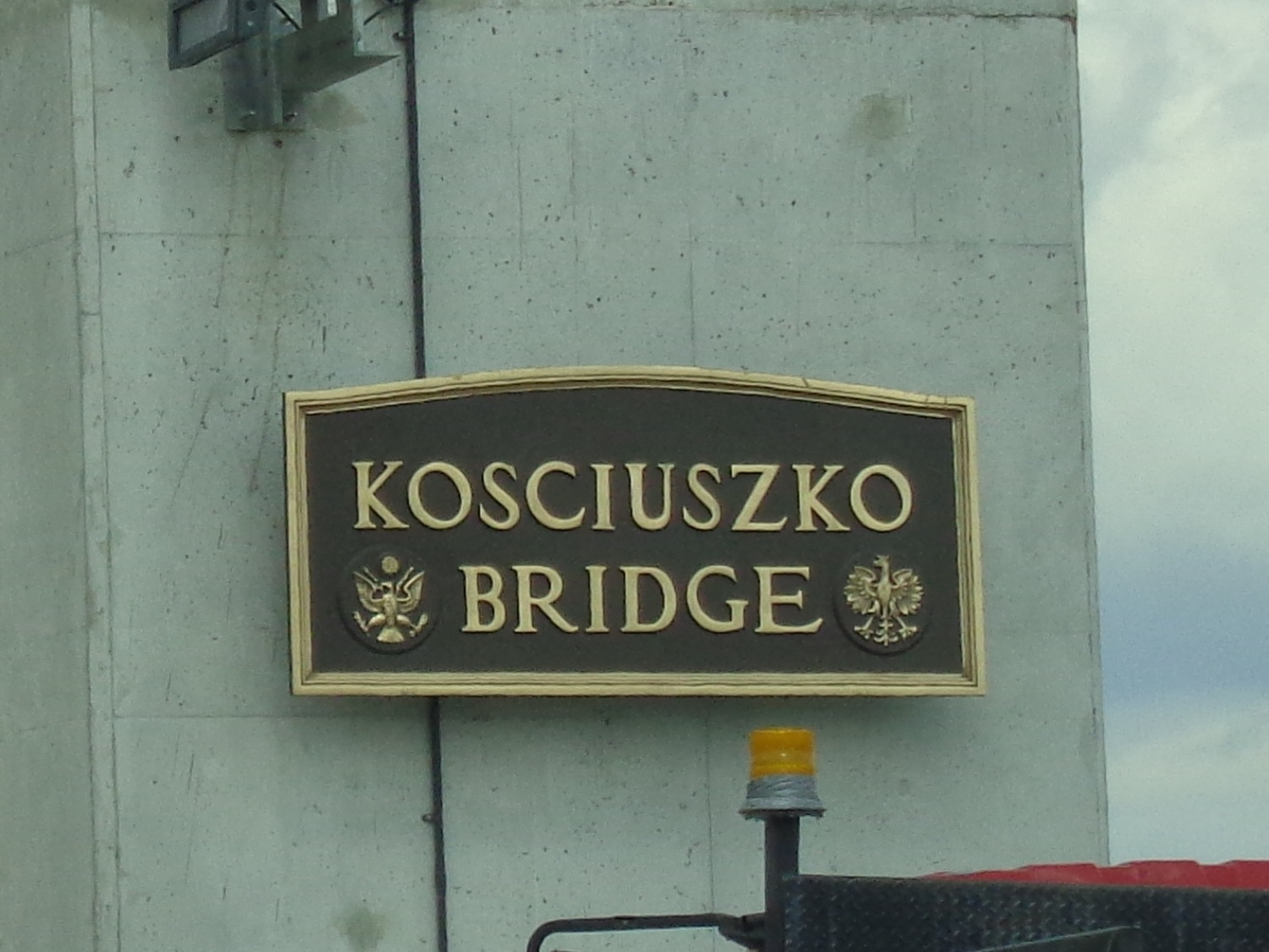 The nameplate of the Kosciuszko Bridge (I-278) between Brooklyn and Queens, New York.